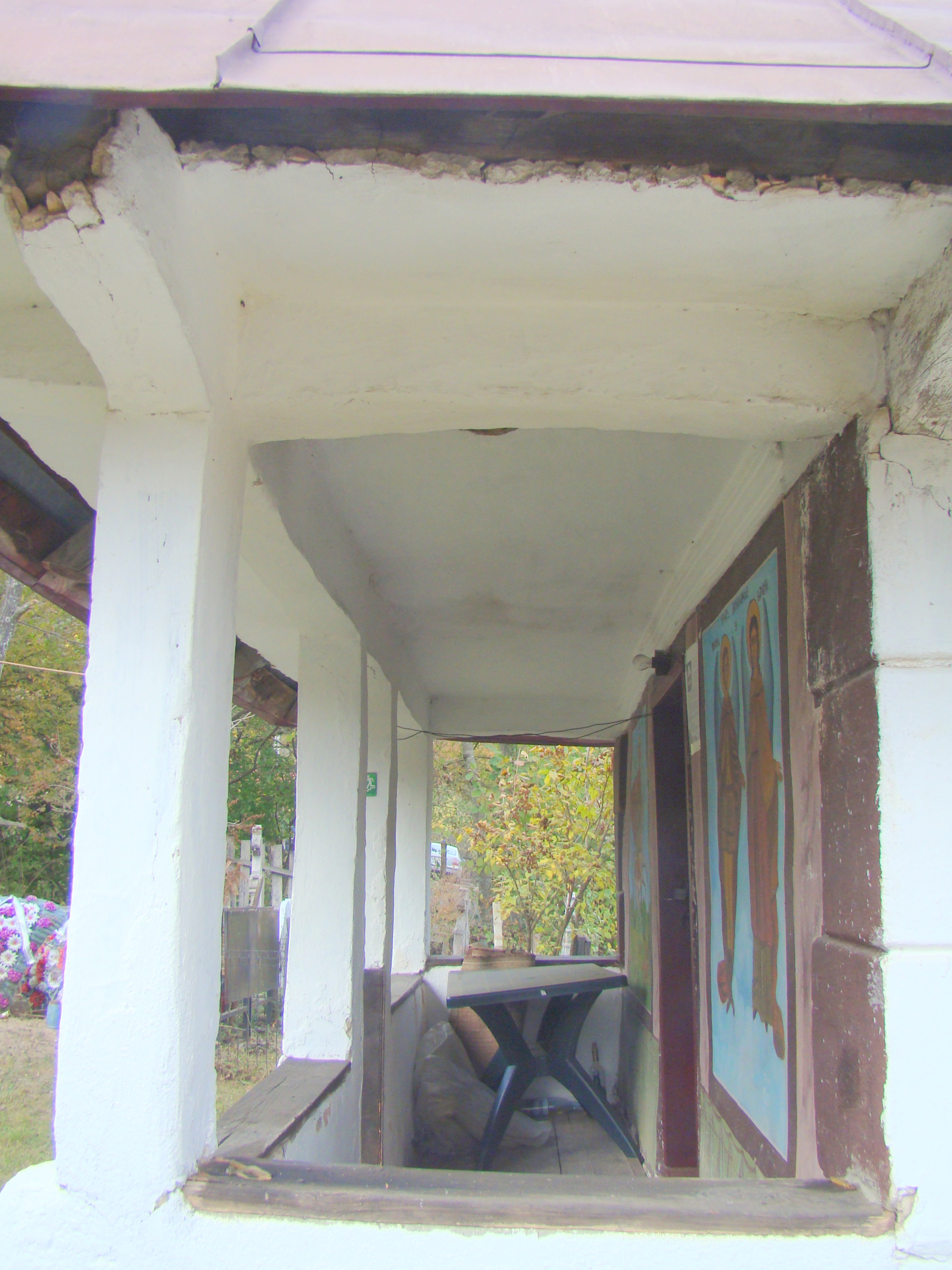 Wooden church in Pistrița, Mehedinți county, Romania